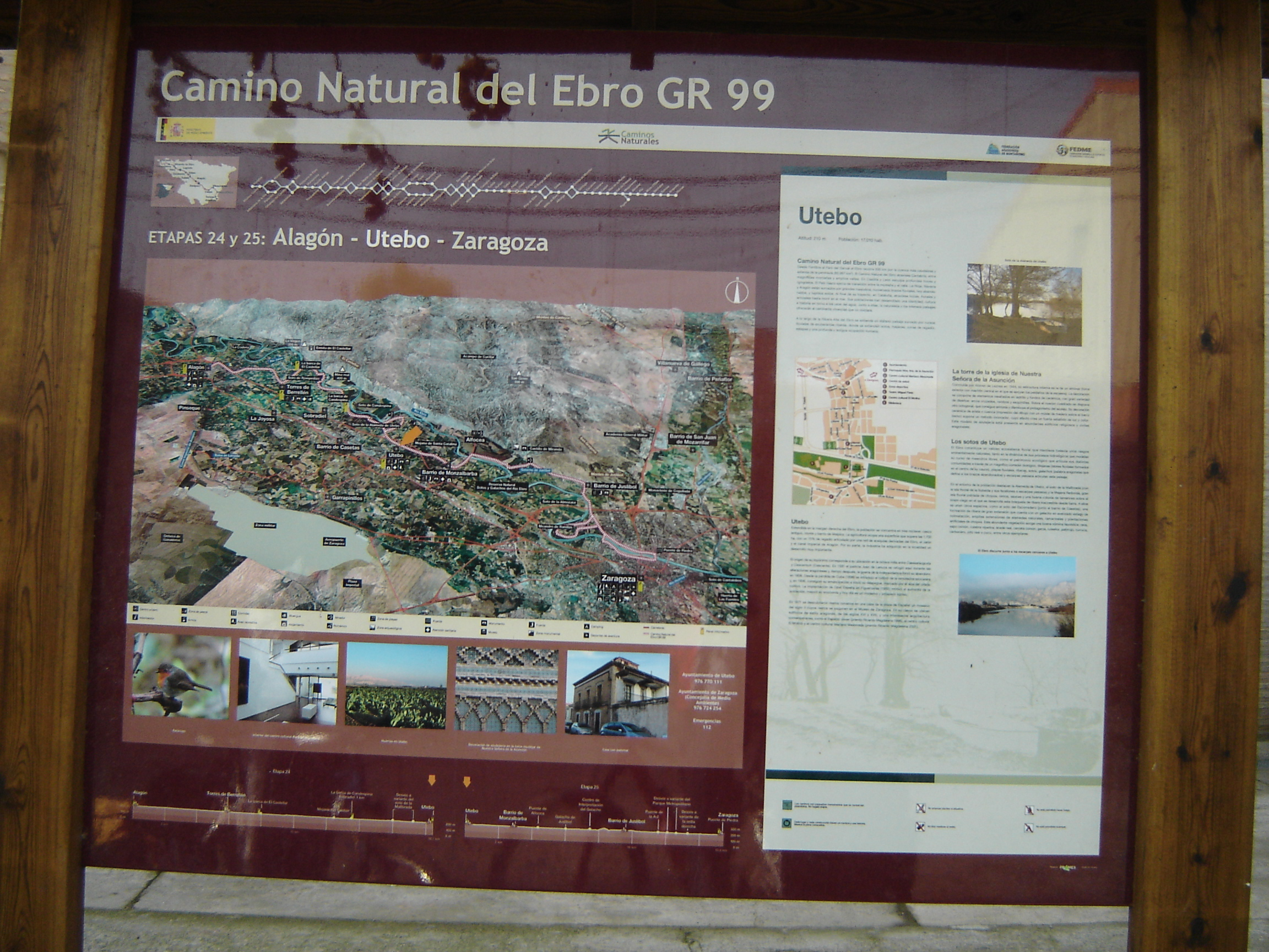 GR 99 Description Panel in Utebo (Zaragoza)